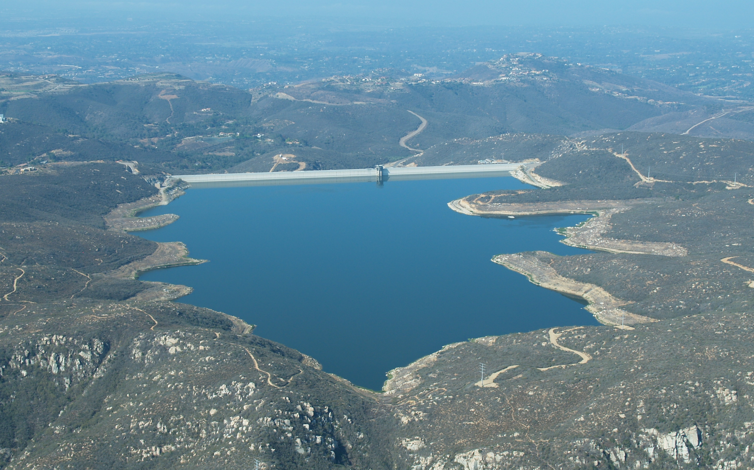 Aerial view of Olivenhain Reservoir and Dam looking toward the southwest. Add attribution: "Phil Konstantin"